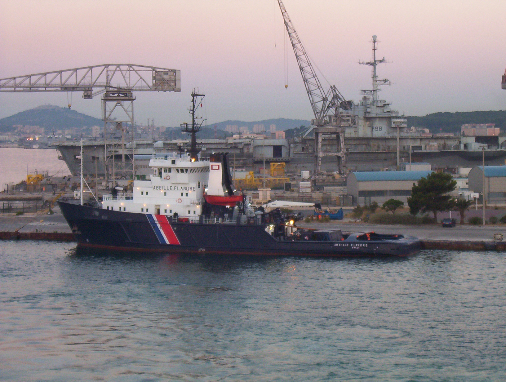 The French tugboat Abeille Flandre in Toulon's harbor (France). The aircraft carrier Clémenceau can be seen in the background. Picture taken on 1st of September, 2005.